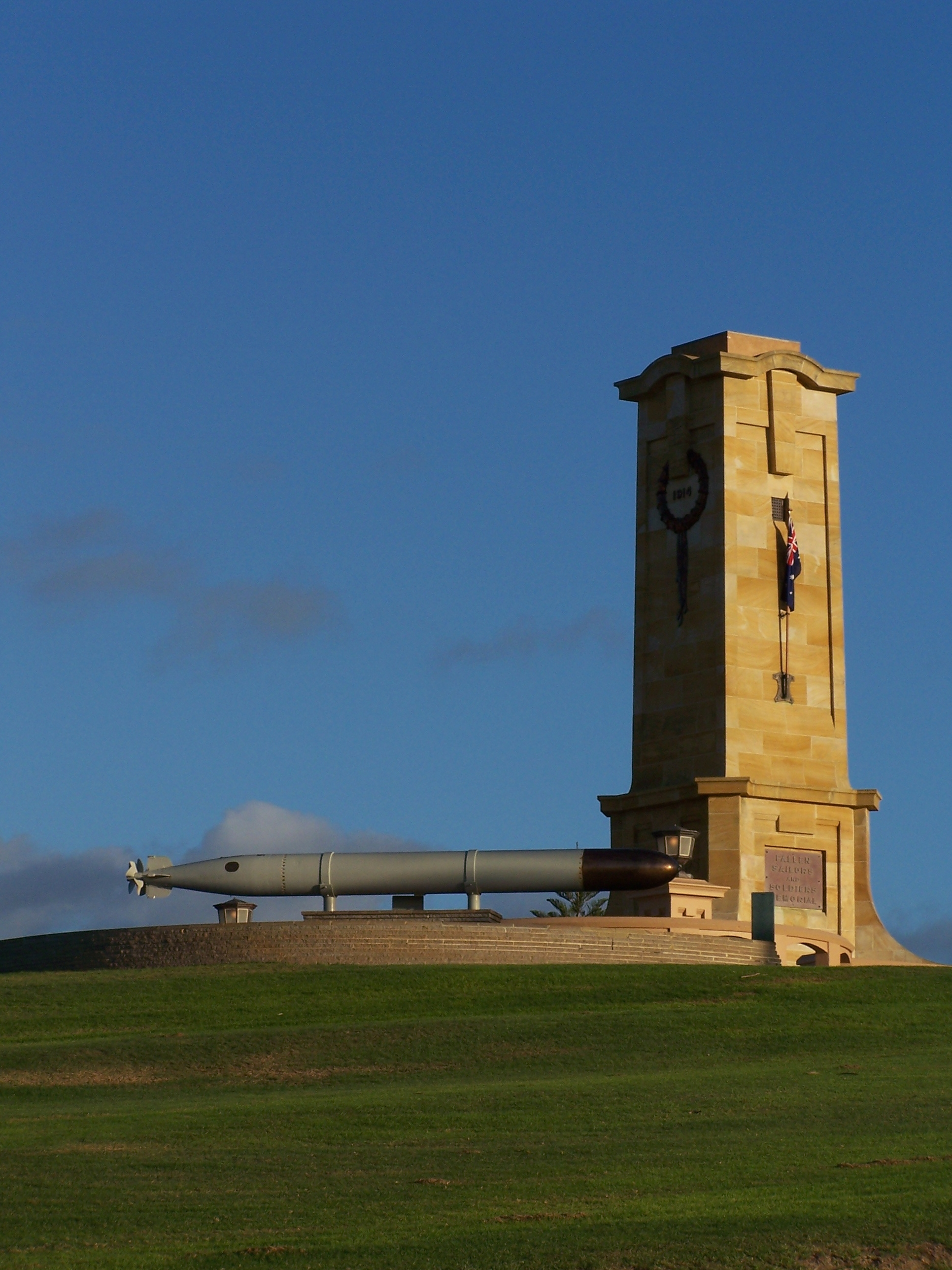 Monument to all West Australian sailors during all wars. Also to all vessels that served out of Fremantle during WWII, Monument Hill Fremantle WA.